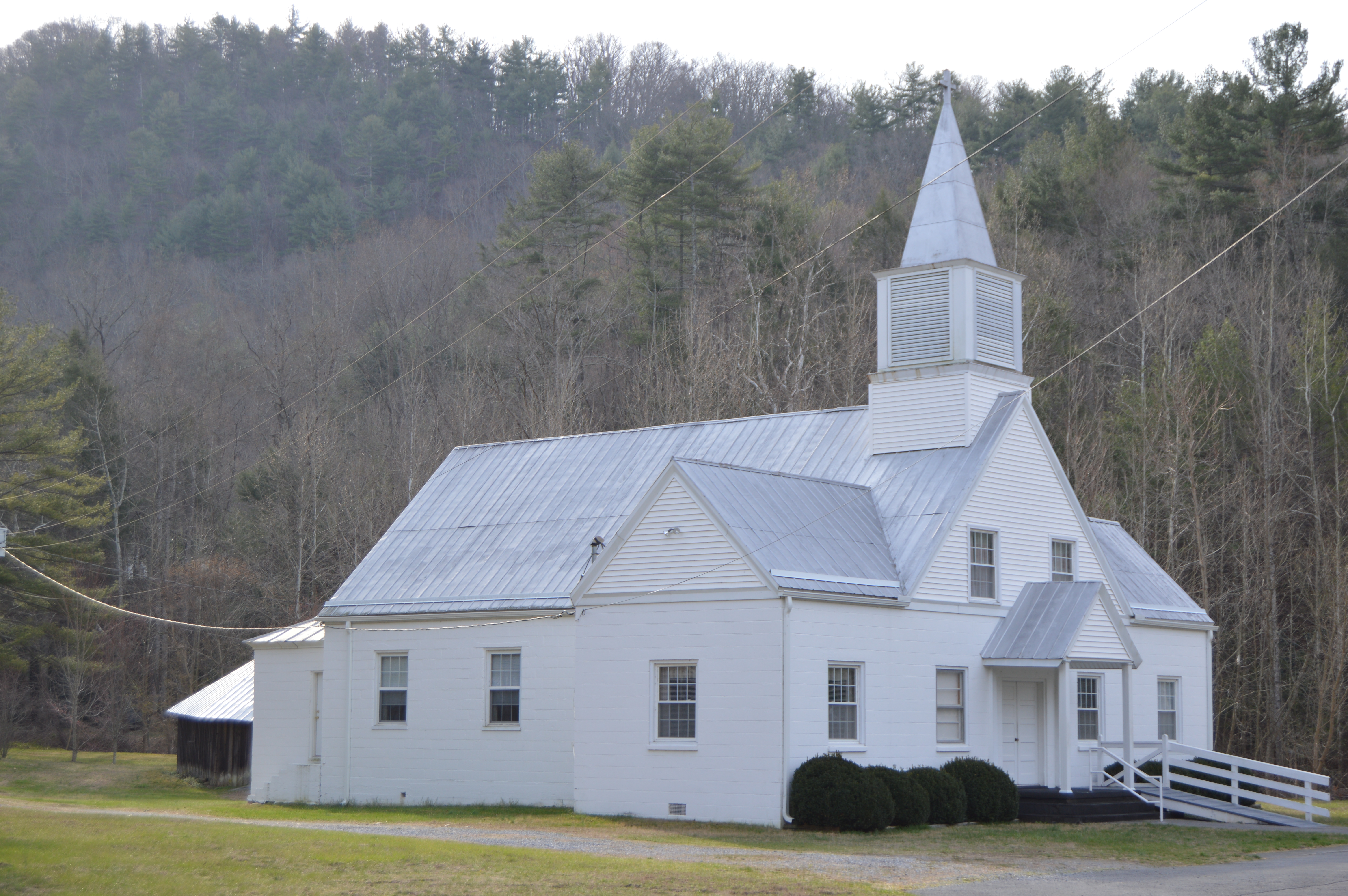 Northern side and front of the Piedmont Pentecostal Holiness Church, located on Jewell Drive at Piedmont in Montgomery County, Virginia, United States. Built in 1936, it is part of the Piedmont Camp Meeting Grounds Historic District, a historic district that is listed on the National Register of Historic Places.